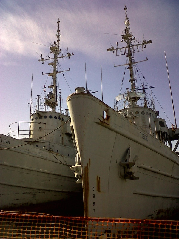 Abnaki class tug USS Moctobi (ATF-105) "Lion" and USS Quapaw (AT-110) "Tiger" at Shipyard #3 in Richmond, California. Photo taken from the Wapama (steam schooner) barge looking south.